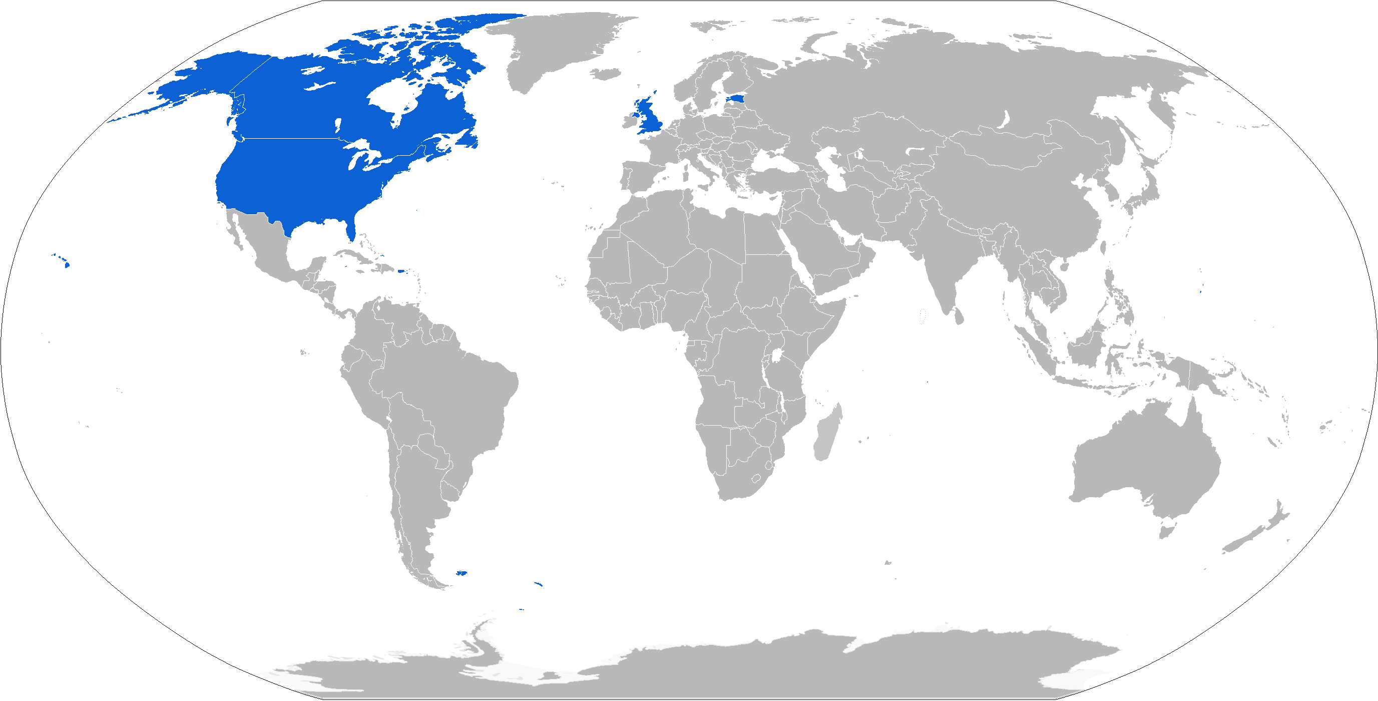 Map with M252 operators in blue